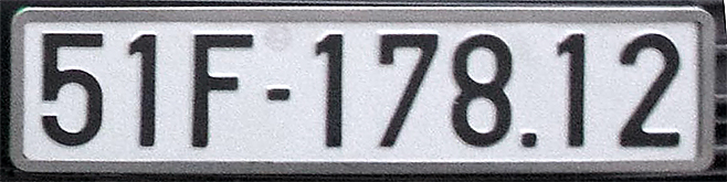 Vietnamese plate for Ho Chi Minh City. This area is identifiable by the first two numbers displaying 51, which means that the car registration province/municipality is indeed Ho Chi Minh City or Saigon.